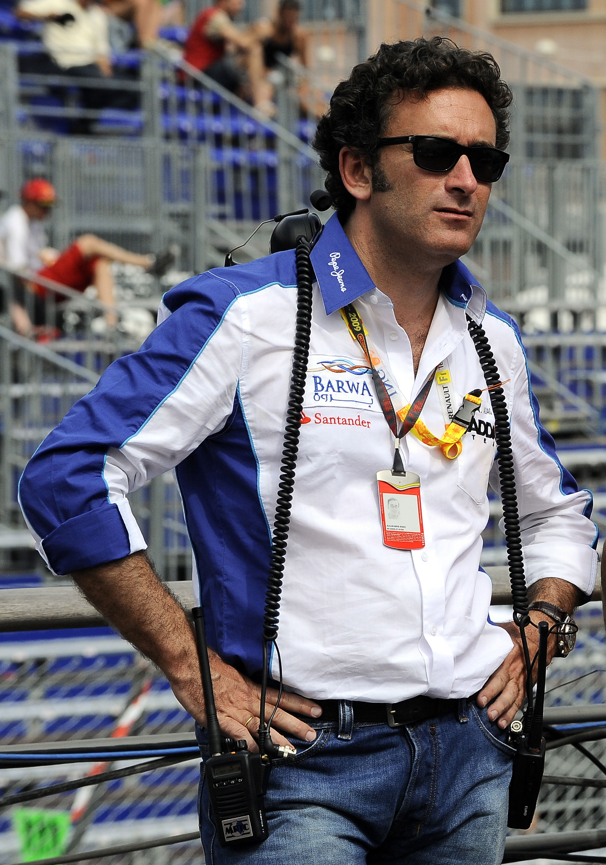 Alejandro Agag at Monaco